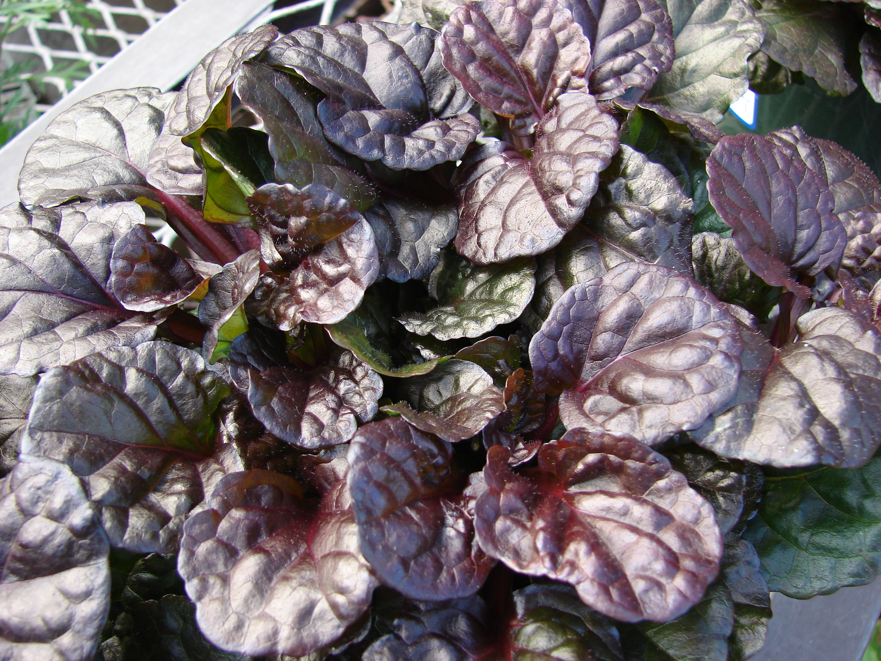 Ajuga reptans (habit). Location: Maui, Lowes Garden Center Kahului